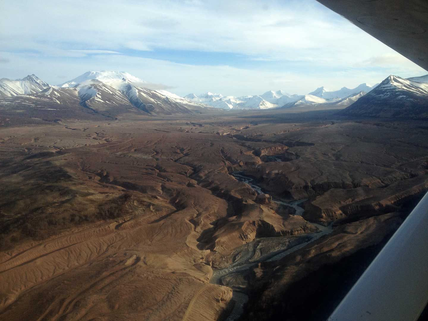 This is the confluence of Knife Creek, River Lethe, and Windy Creek where the Ukak River begins.